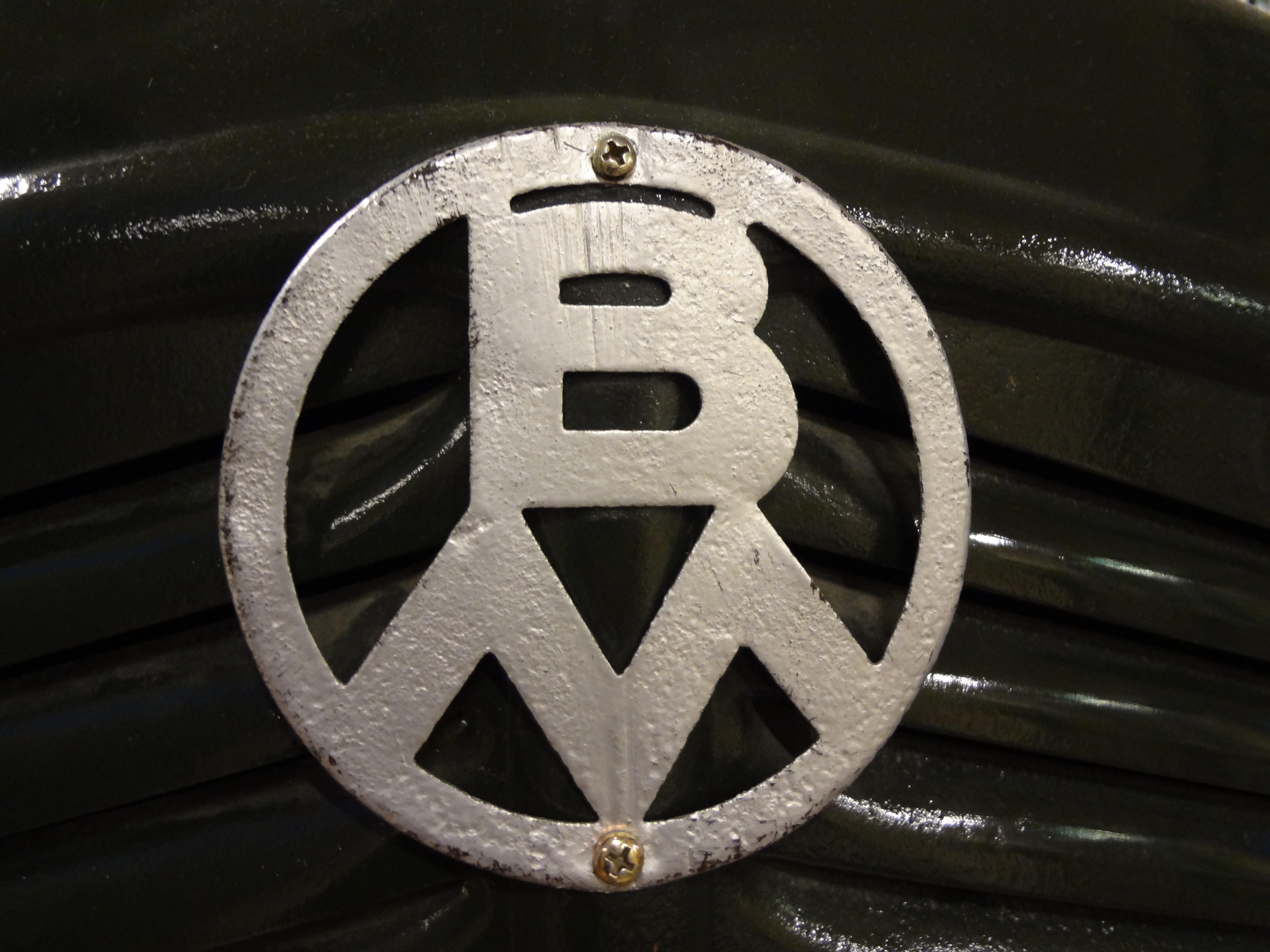 Bolinder Munktell logo on a BM20.